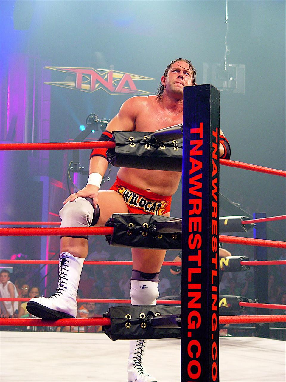 Chris Harris at TNA Impact tapings in Orlando Florida